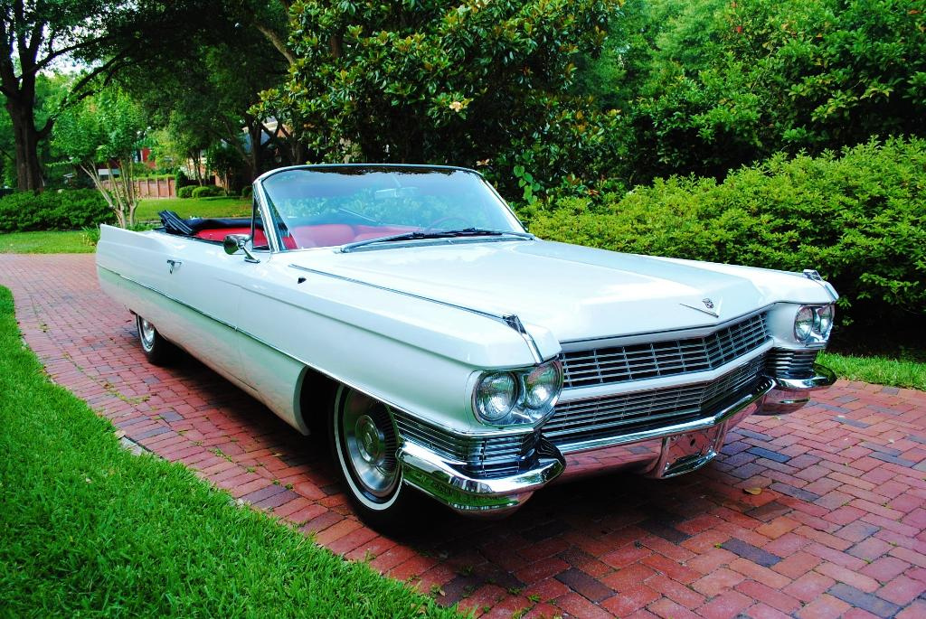 This is a picture of a 1964 Cadillac Deville convertible.